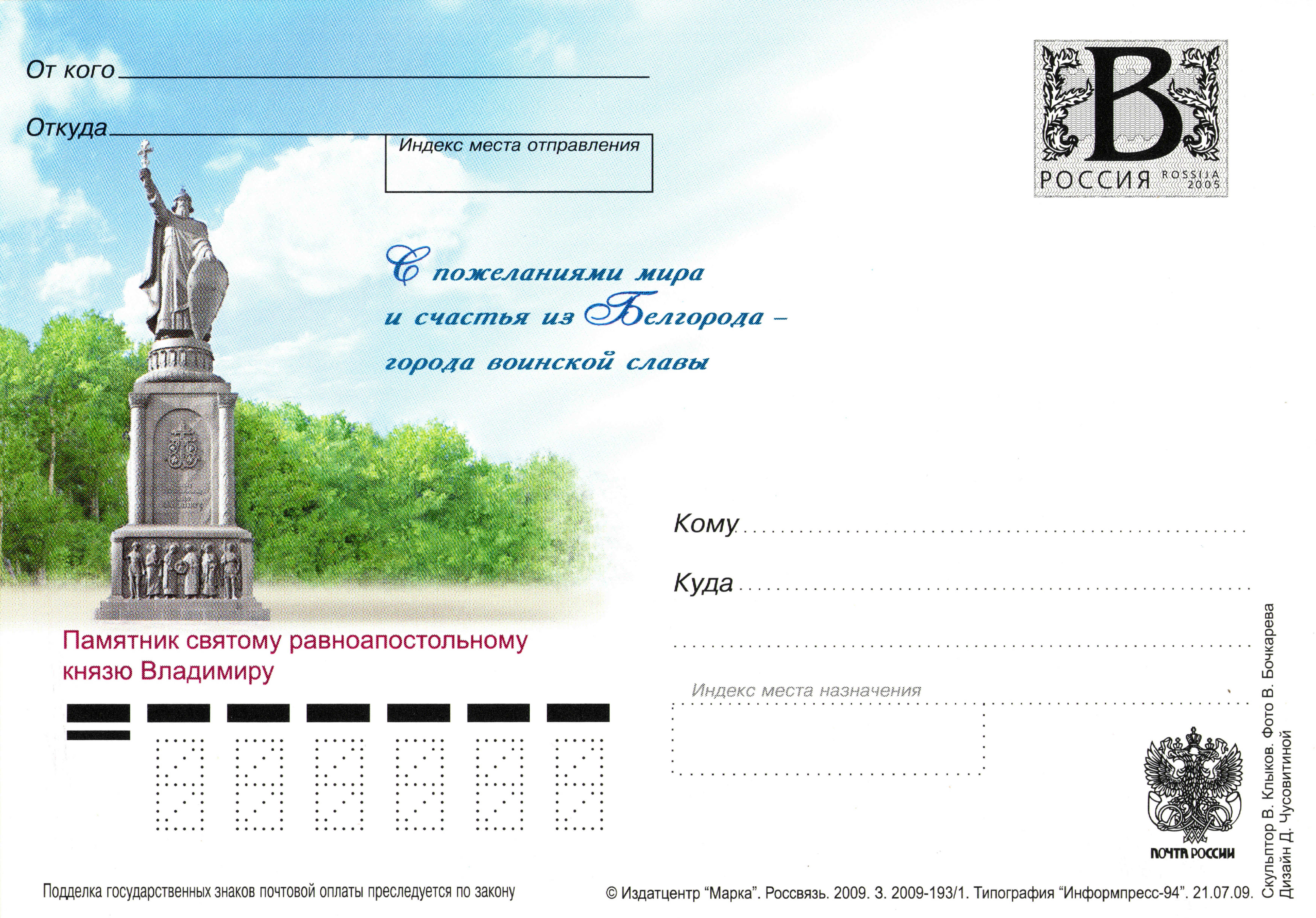 From Belgorod, the City of Military Glory, with the wishes of peace and happiness. The postal card with the imprinted definitive non-denominated stamp "Letter B", Russia, 2009, Catalogue of PTC Marka # 172К-2009. Belgorod. The monument to St. equal-to-apostles prince Vladimir by the sculptor V.M. Klykov and the architect V.V. Pertsev, 1998.